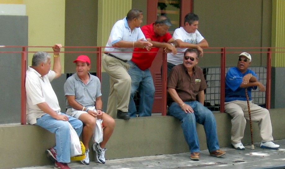 Ponce, Puerto Rico